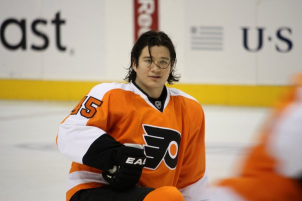 Arron during warmups